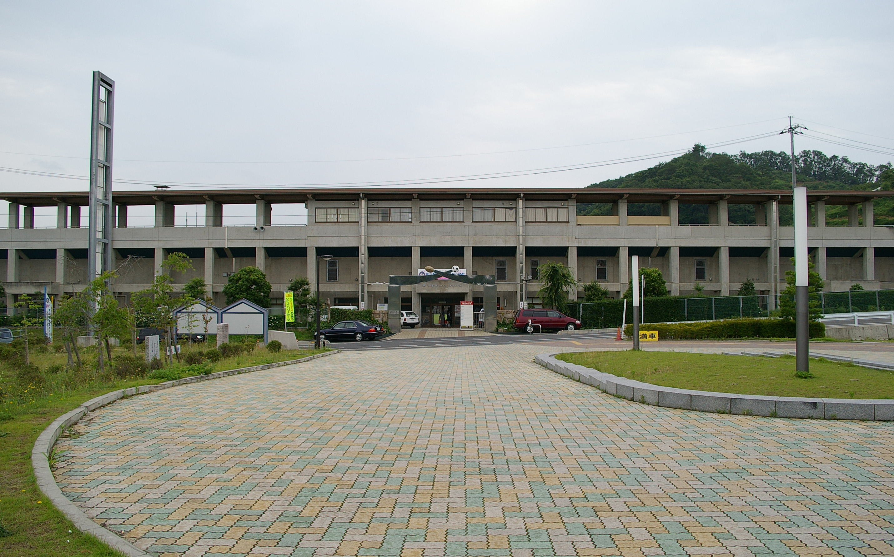 Mimasaka Football Stadium.(Okayama-pref/Japan)